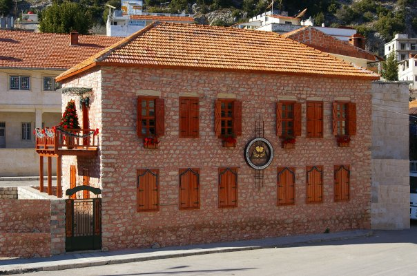 Missakian Armenian cultural centre in Kessab, Syria.